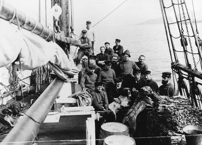 The picture shows all members of the expedition Schroeder-Stranz (Deutsche Arktische Expedition, German Arctic Expedition) on board of their ship "Herzog Ernst". Depicted persons (from left to right): first row: ?, Herbert Schröder-Stranz (with dog), ?, ?, ? second row: ?, Walter Moeser (looking left towards the mast), ?, Erwin Detmers, ? third row: Norwegian crew members ?